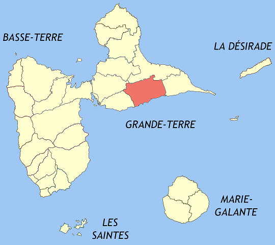 Location of Sainte-Anne within Guadeloupe